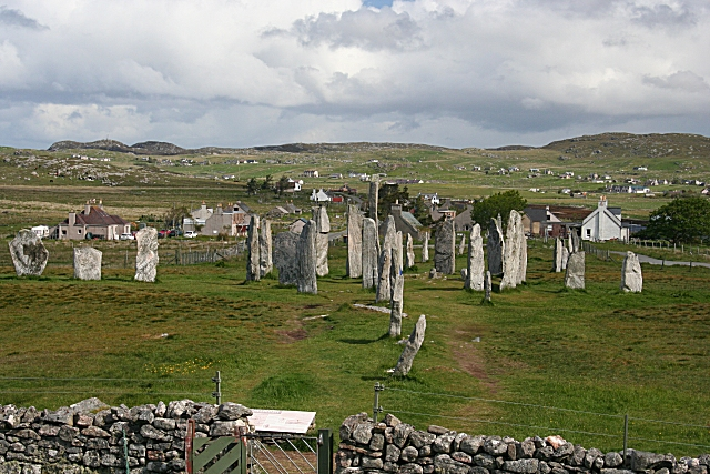 Calanais This is the view from the top of the low hill just to the south of the stones. I find the white information board very distracting, because it draws the eye away from the stones. However at least it is the only one in proximity to the stones themselves. The scattered houses of the community of Calanais (Callanish) are in the background.